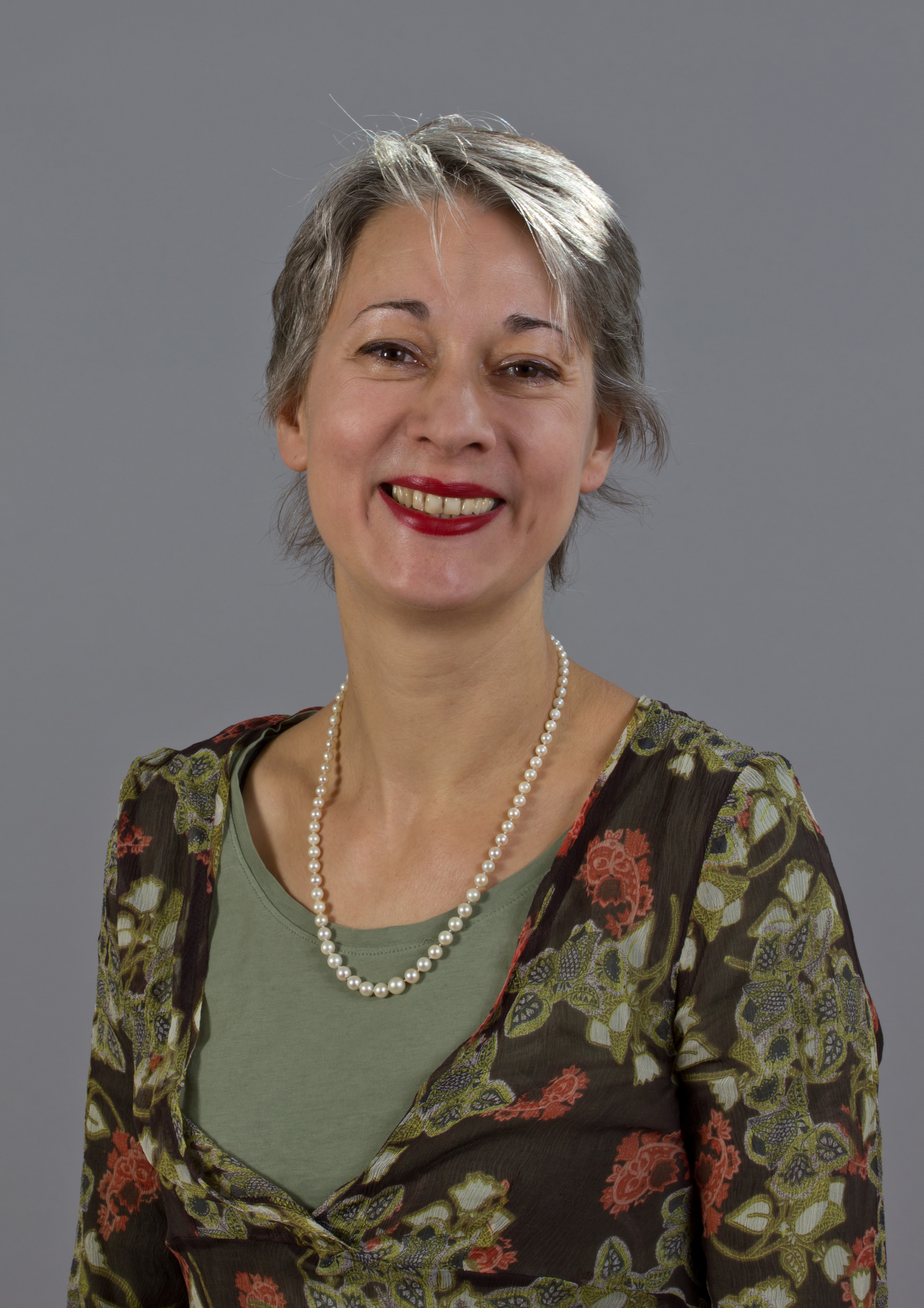 Susanna Kahlefeld, politician from Germany, member of Abgeordnetenhaus of Berlin (as of 2013)